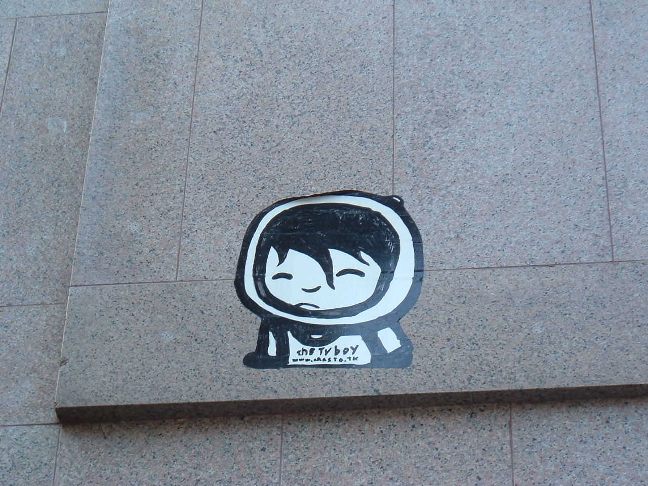 A Tvboy sticker in Milan.